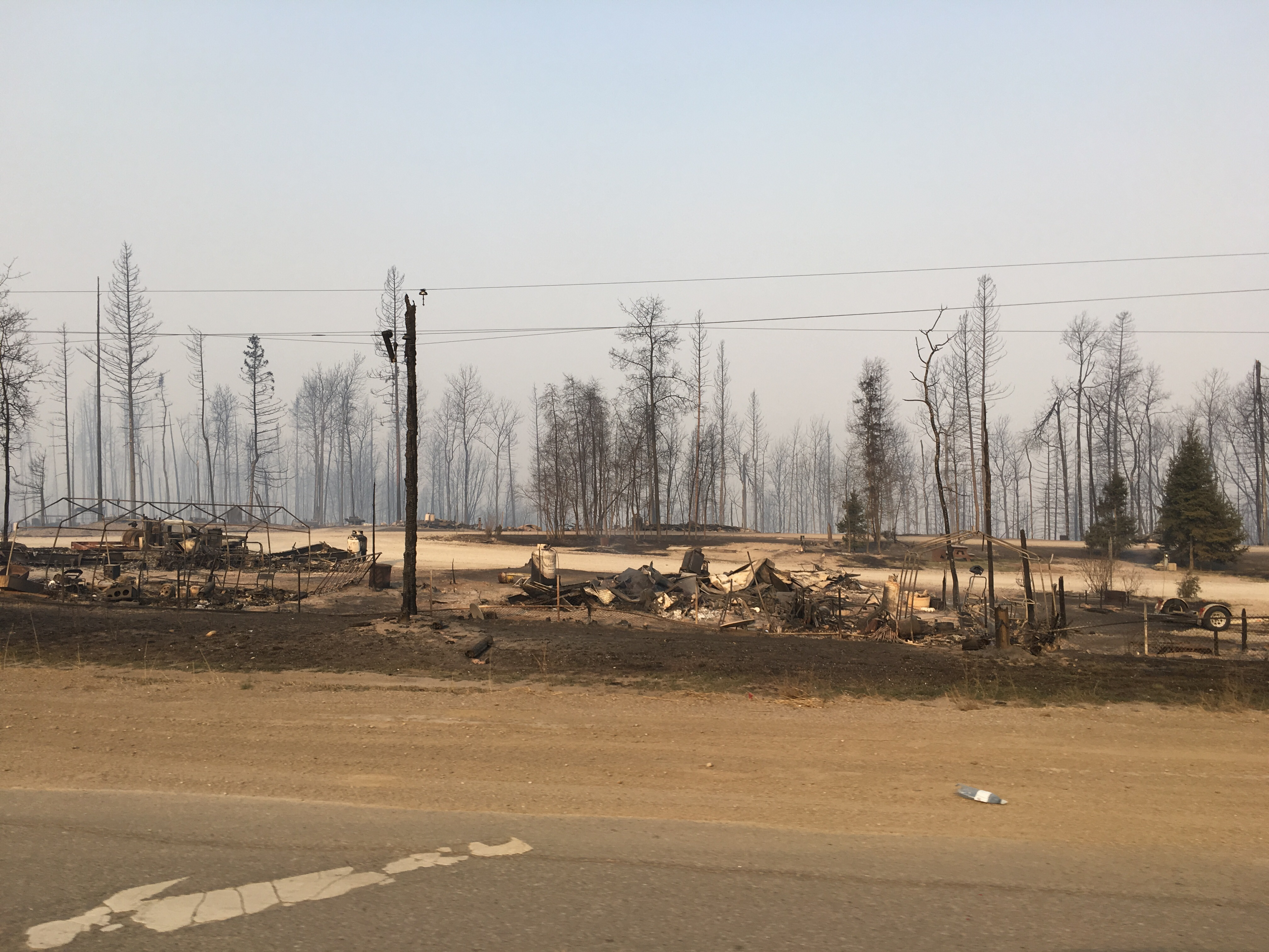 Campground on hiway 63 may 4 2016